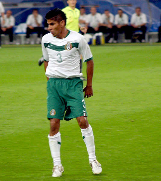 Carlos Salcido playing with the Soccer Mexican National Team.